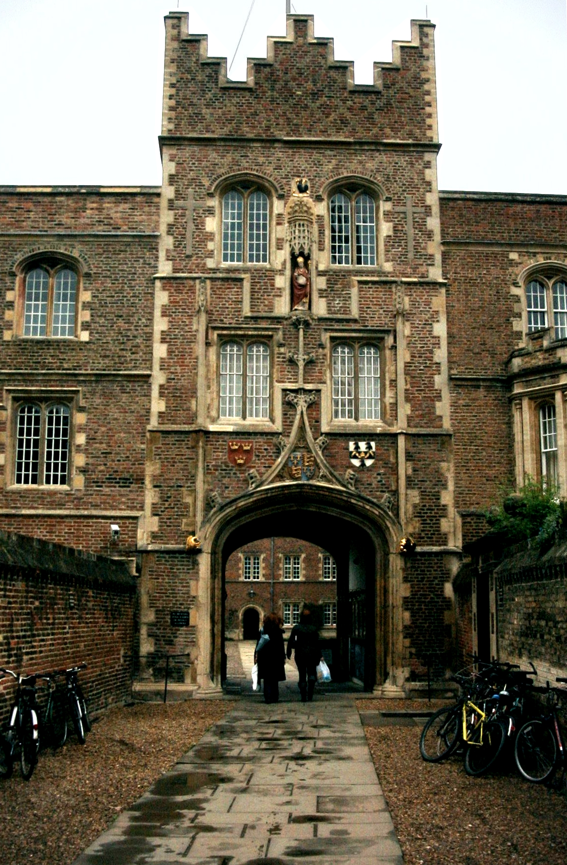 Main entrance of Jesus College. This photo was taken by Timwi on May 1, 2004 and released by him into the public domain.